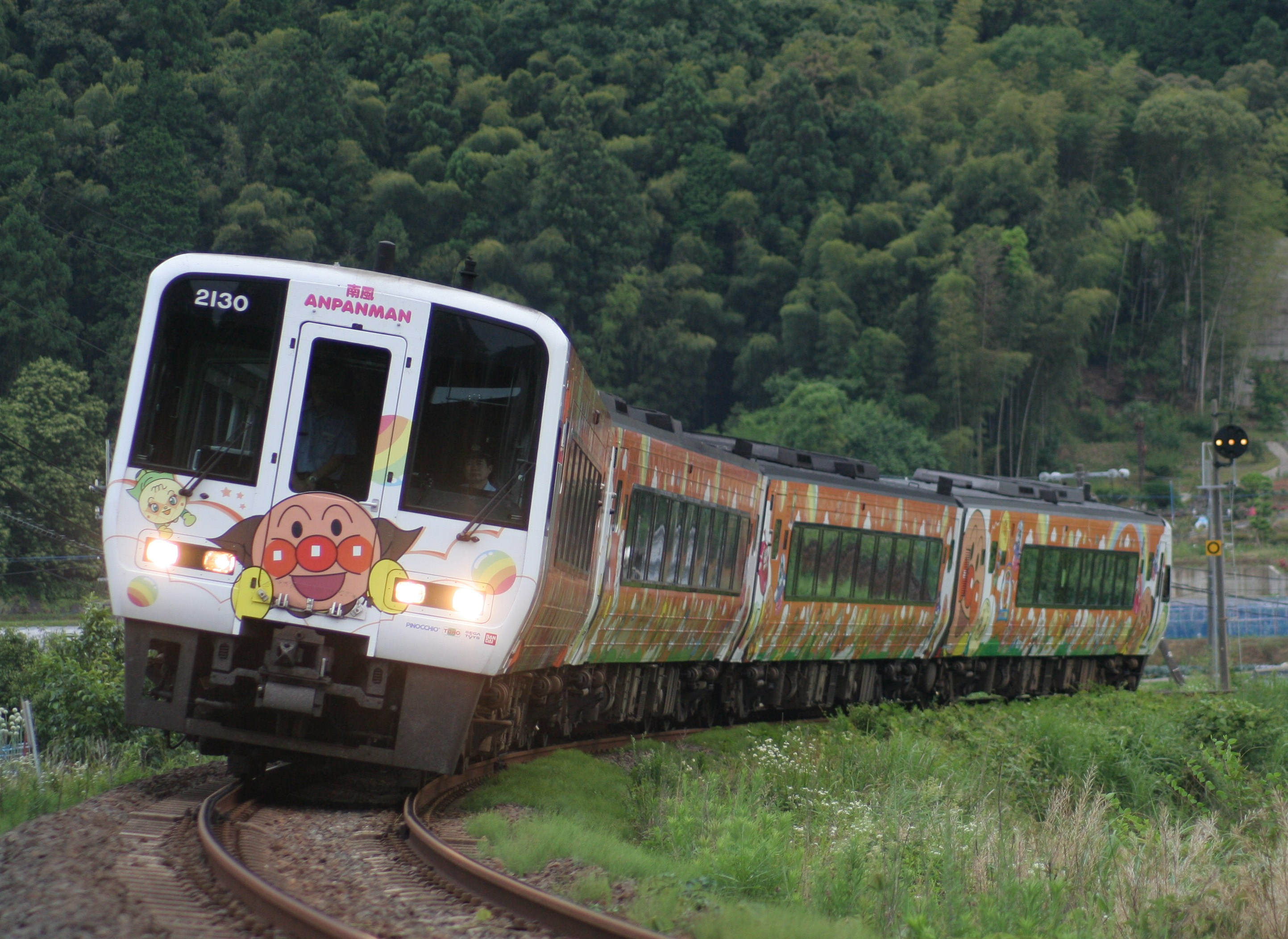 JR Shikoku 2000 series DMU for the limited express Nanpu on Dosan Line between Sanuki-Saida and Kurokawa